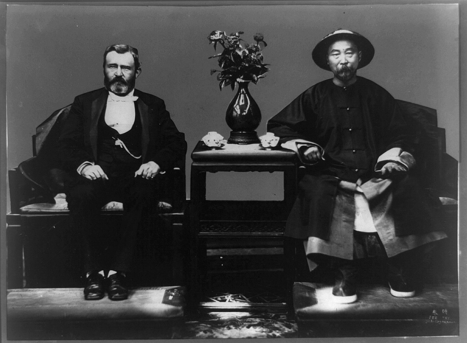 Photo of Ulysses S. Grant and Governor-General Li Hongzhang during the World Tour of Ulysses S. Grant 1877-1879 Photographer : Liang, Shitai, 1879 -- LOC photo without the added Sepia tone